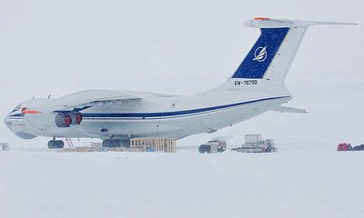 Ilyushin Il-76 at the Novolazarevskaya StationNorsk bokmål: Ilyushin IL-76 lander på Novolazarevskaya i Dronning Maud LandKiswahili: Ilyushin IL-76 ndege upo kwenye Novolazarevskaya, Dronning Maud Land